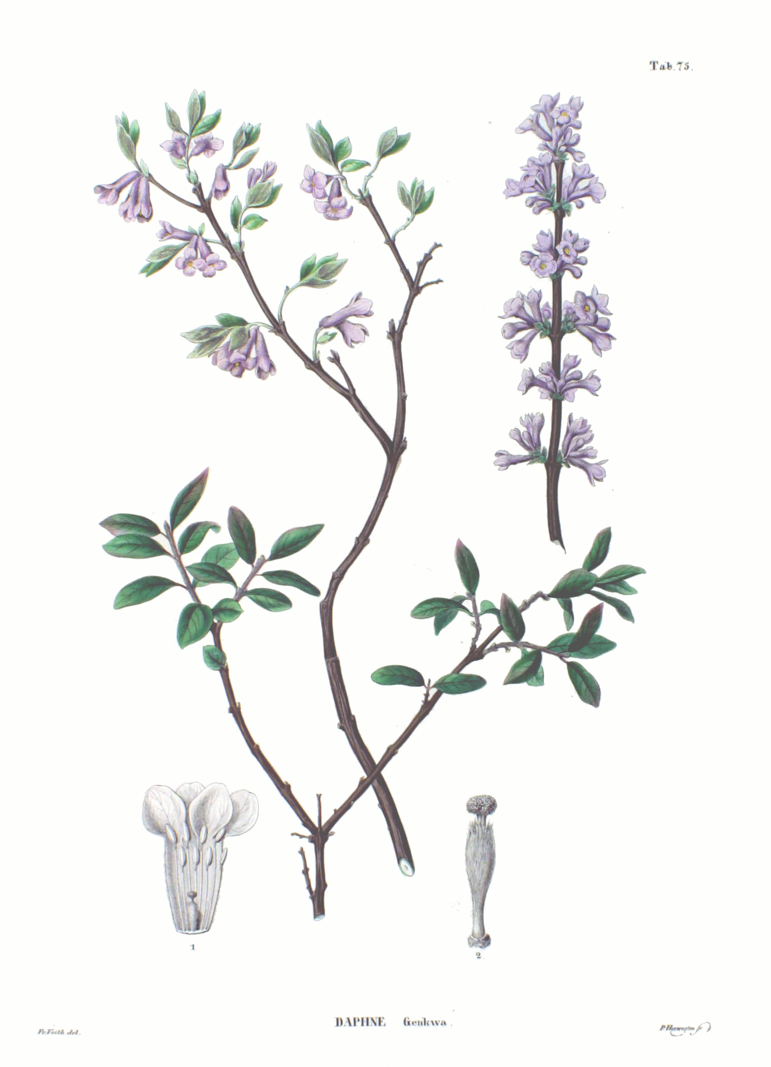 Plate from book